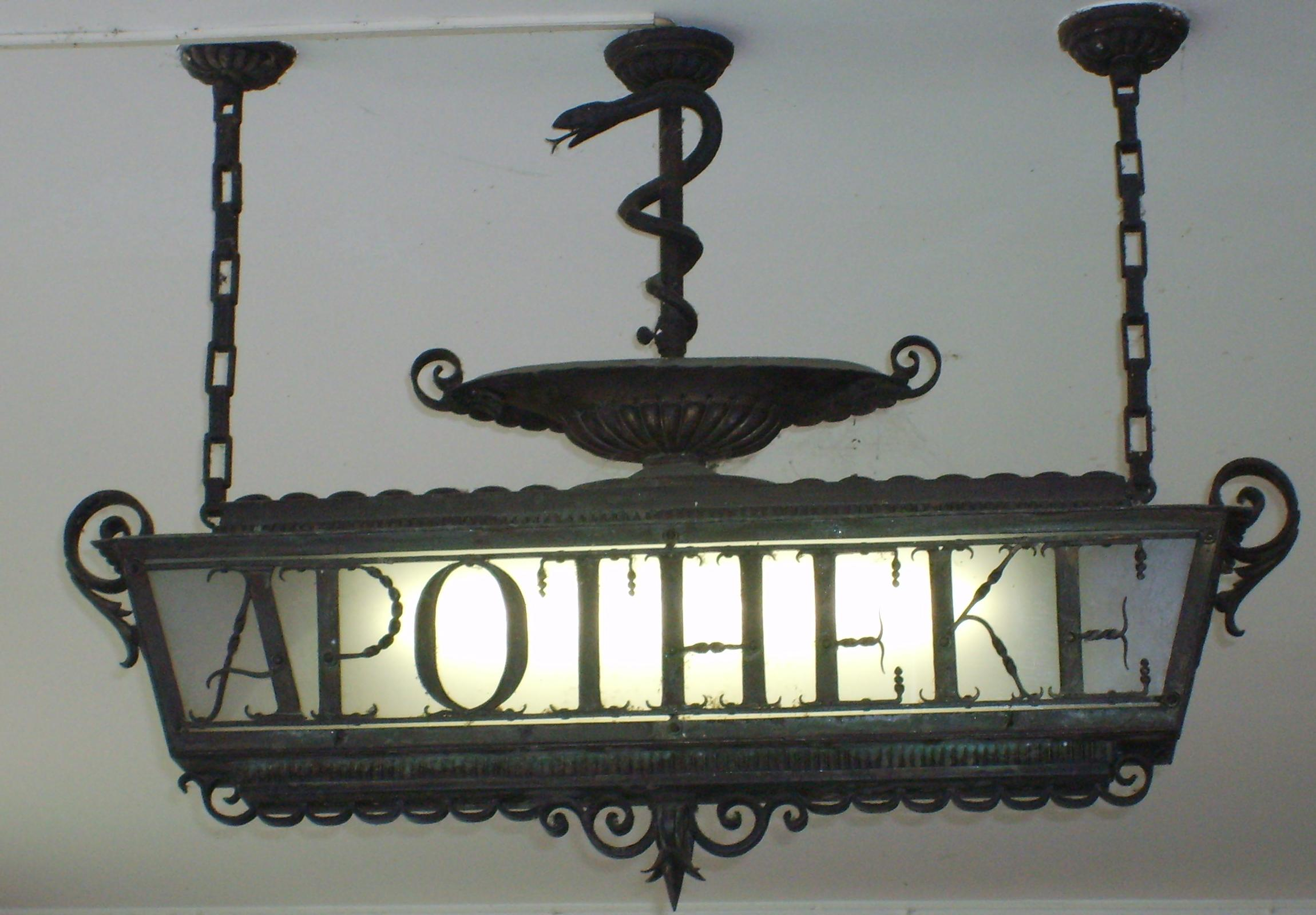 Lighted sign (drugstore) in Murten (Canton of Fribourg) in Switzerland. Publish by= User:Stephane8888 Self made